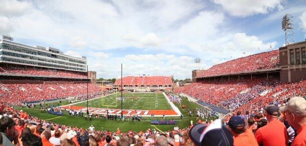 Memorial Stadium Re-Dedication Game September 6, 2008 Illinois vs. Eastern Illinois